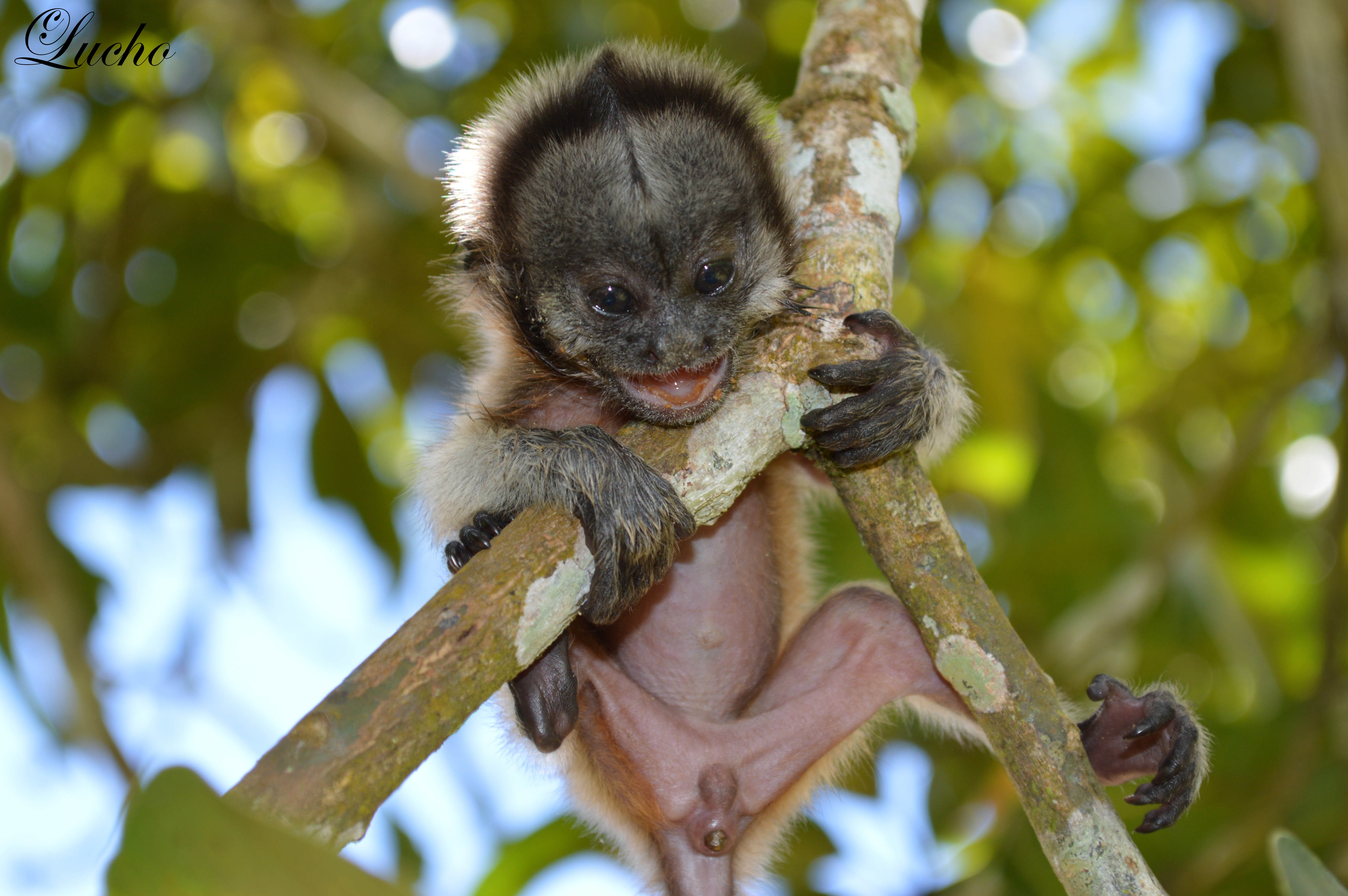 For the species Saguinus leucopus recently rethinks management based on the results of several recent molecular and morphological analysis, including family Callitrichidae within the family as a subfamily Cebidae: Callitrichinae